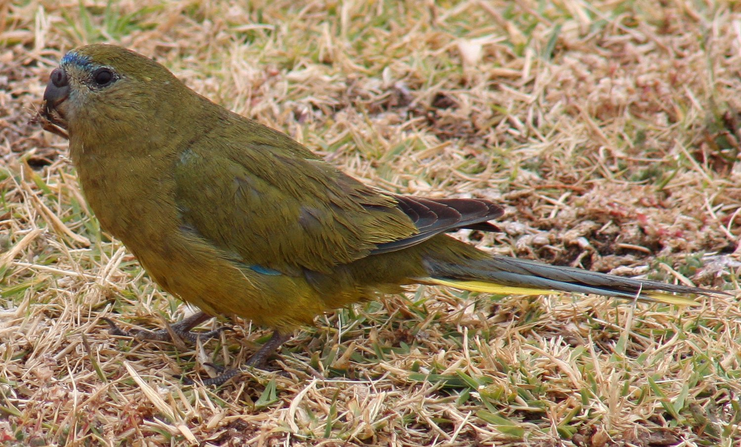 An adult (possibly female) Rock Parrot with grass seed in rain near Cape Leeuwin Lighthouse, Cape Leeuwin, Western Australia, Australia.